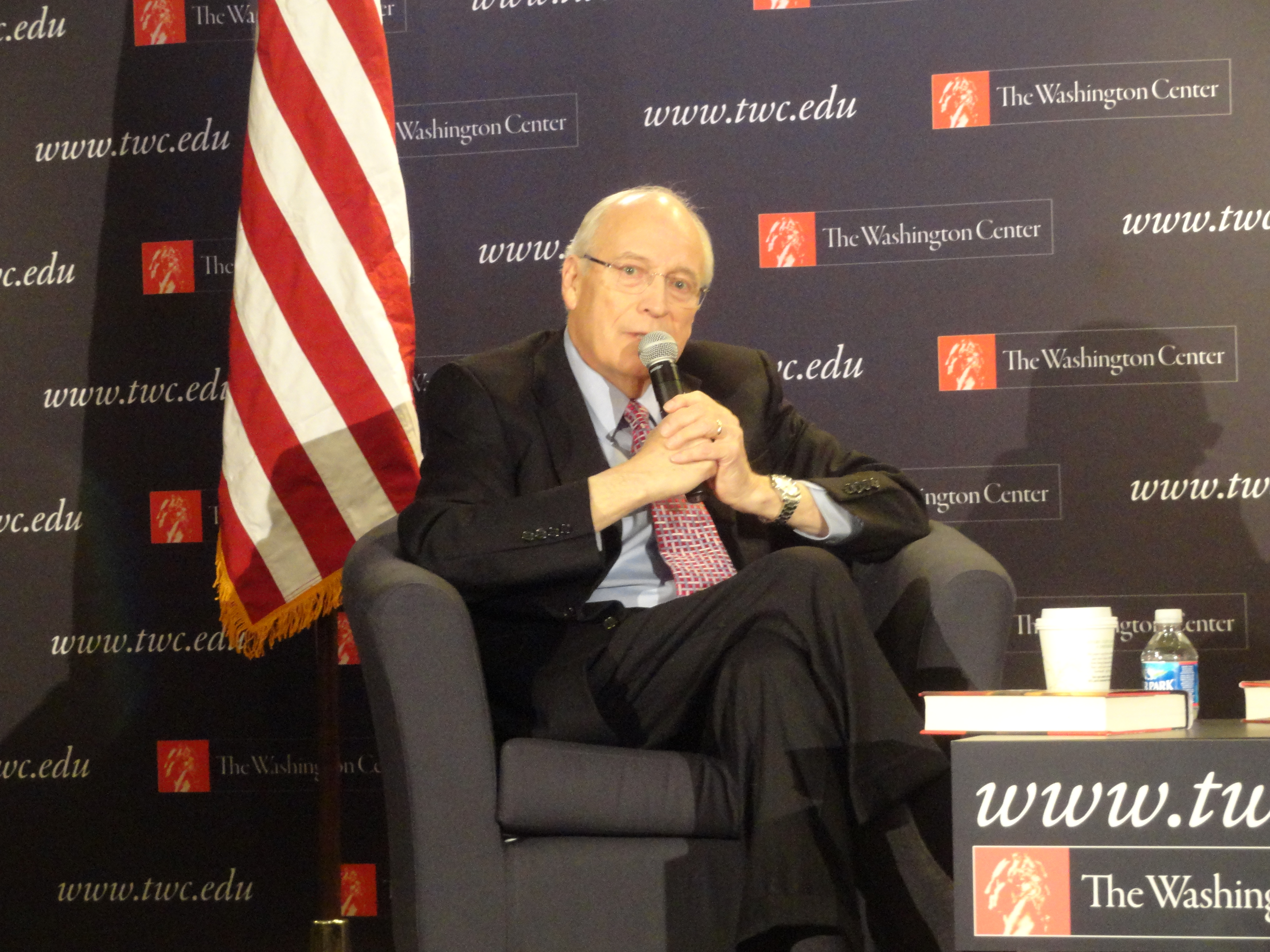 Dick Cheney at the Alan K. Compson- Norman Y. Minetta Series for The Washington Center. This was his second appearance in public since his heart surgery a month and a day before.